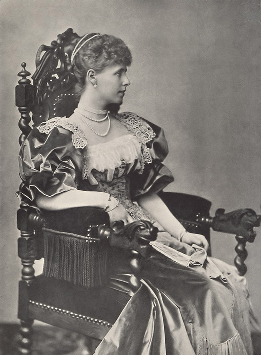 Marie of Edinburgh in 1893